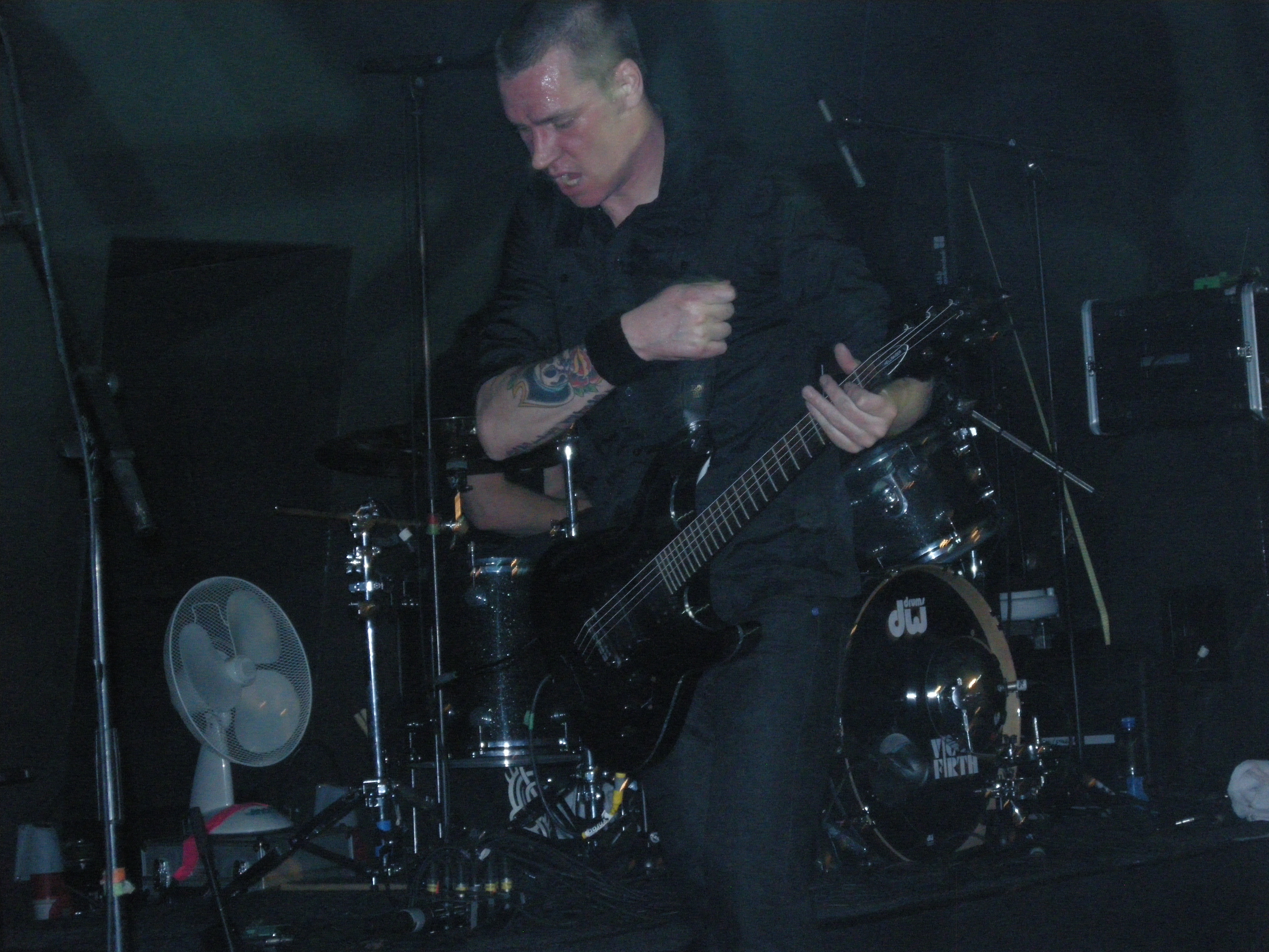 Swedish hardcore band Raised Fist at The Close-Up boat February 2011